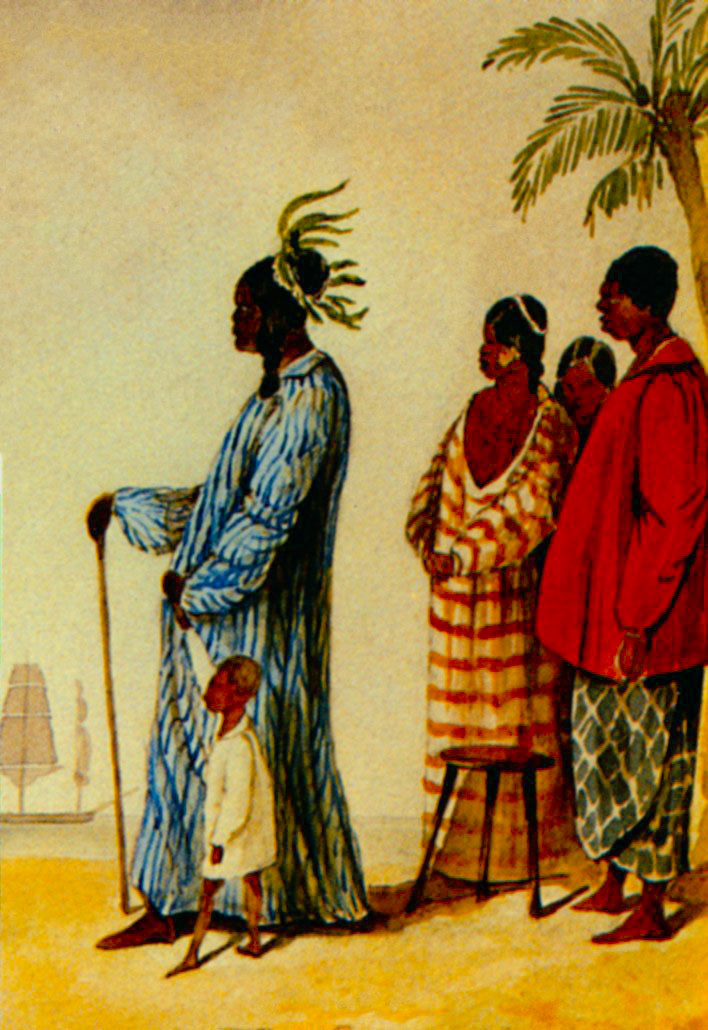 Queen Teriitaria Ariipaea-vahine and probably her adopted heir, the future Pomare V. Drawing by Henry Byam Martin (1803–1865) DescriptionBritish aquarellistDate of birth/death 25 June 1803 9 February 1865Location of birth/death Plymouth, Devon, England, United Kingdom Genoa, ItalyAuthority control : Q5718944 VIAF: 3786829 ISNI: 0000 0000 6333 7023 LCCN: n80161181 NLA: 36149161 Open Library: OL1040427A WorldCat creator QS:P170,Q5718944 .